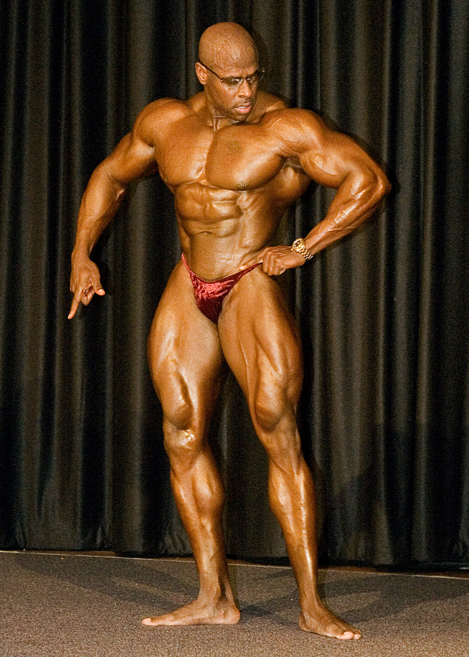 PEARL HARBOR, Hawaii (May 4, 2007) - Chief Mineman Kevin Sperling appears as the guest body builder at an Armed Forces body building competition held at Sharkey's Theatre at Naval Station Pearl Harbor. Sperling is an assistant 3-M coordinator aboard guided-missile destroyer USS Hopper (DDG 70).